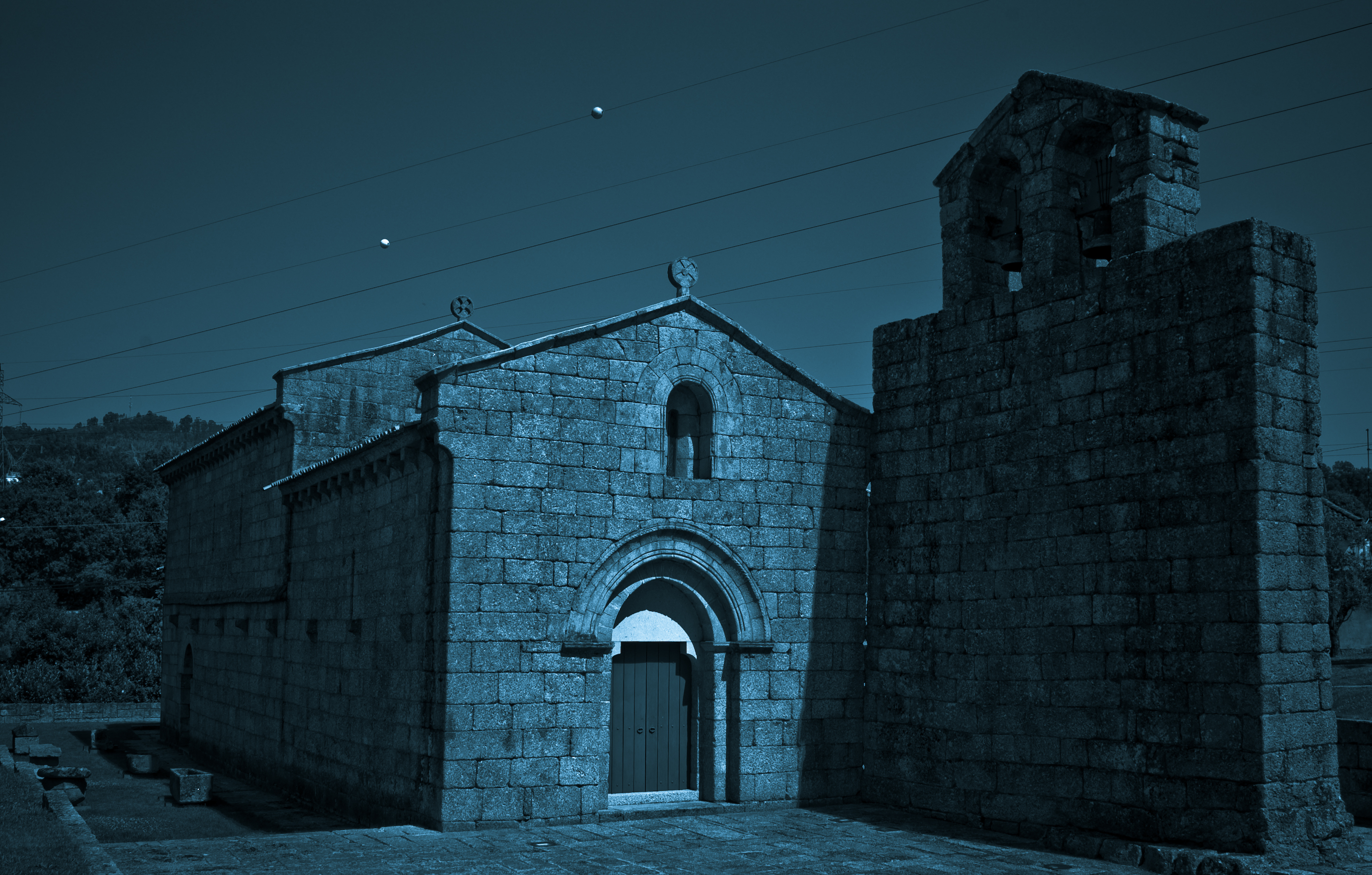 Romanic Church of Serzedelo, a parish of Guimarães, Portugal. A foto foi tirada de dia... trabalho digital com Adobe Lightroom.